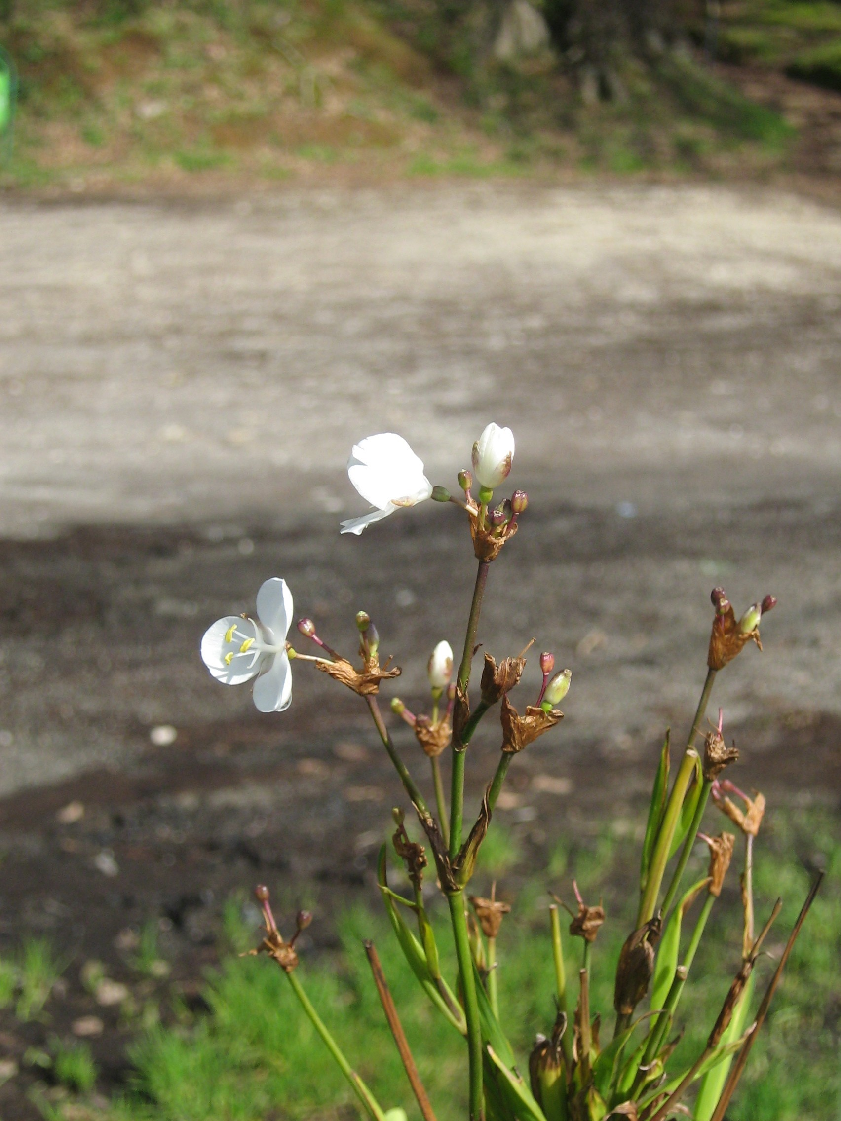 Libertia chilensis (Molina)Gunckel, vernacular name calle-calle